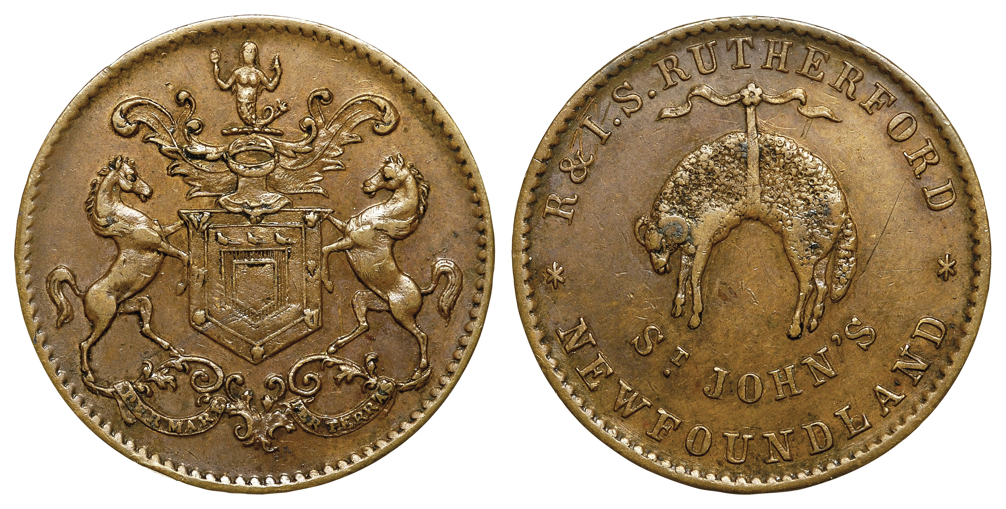 Canada Newfoundland Rutherford Penny Token c1840(241423-18062)